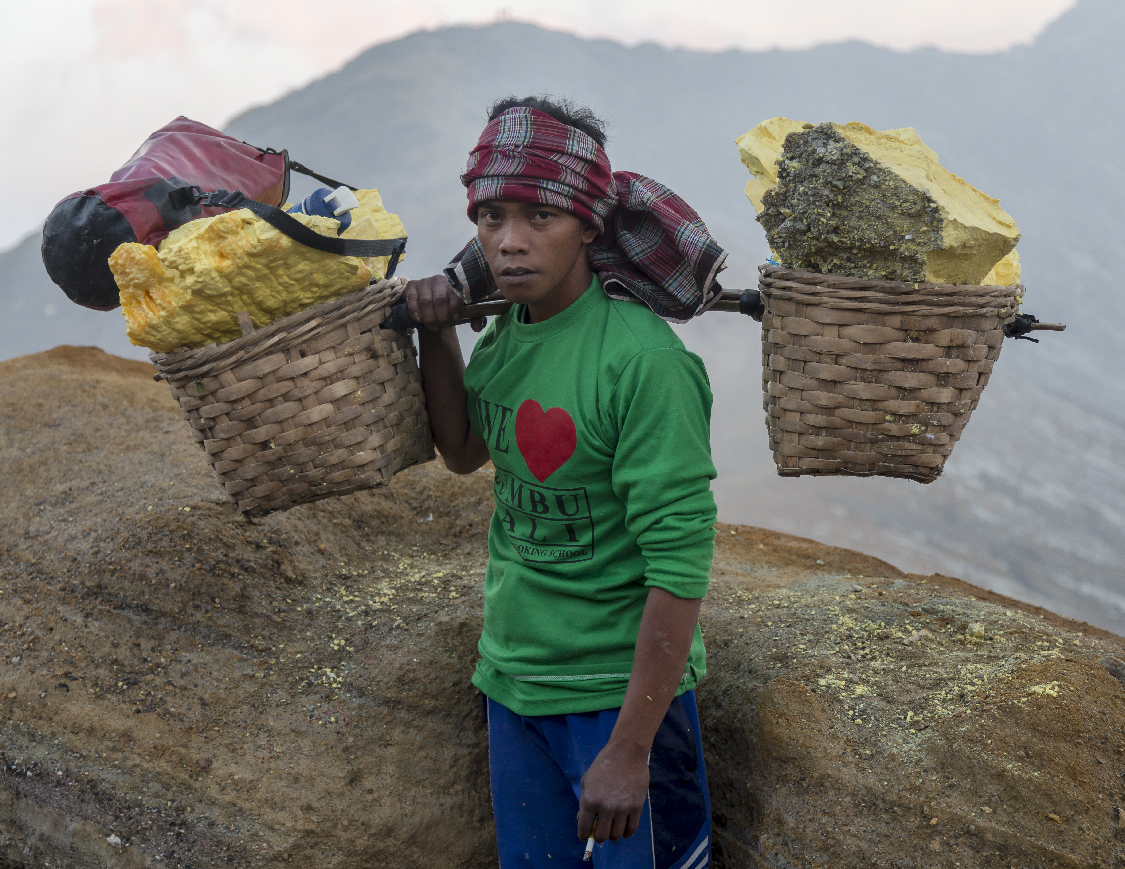 Ijen Volcano, Banyuwangi Regency, East Java, Indonesia: A indonesian sulfur miner is carrying his 90-kg-load of sulfur from the floor of the volcano to the valley where he is getting paid. Sunda: Kawah Ijén, Banyuwangi, Jawa Timur: panambang keur manggul 90 kiloan walirang ti dasar kawah.